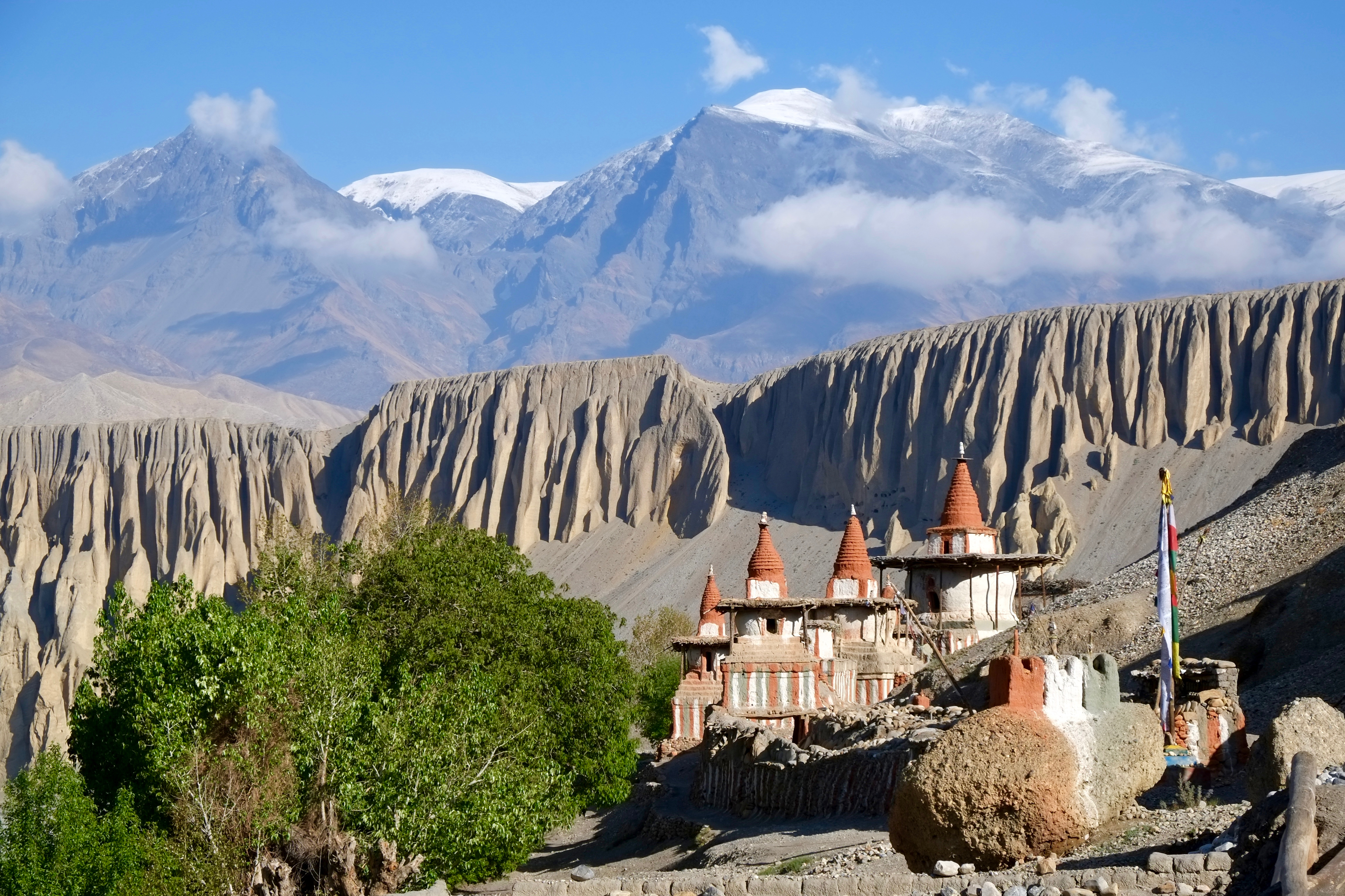 'Chörtens galore in Tangye, Mustang